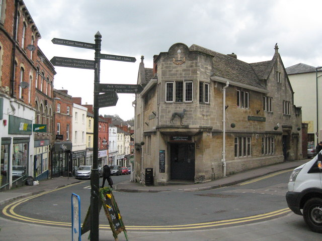 Once the Greyhound - Stroud, Gloucestershire